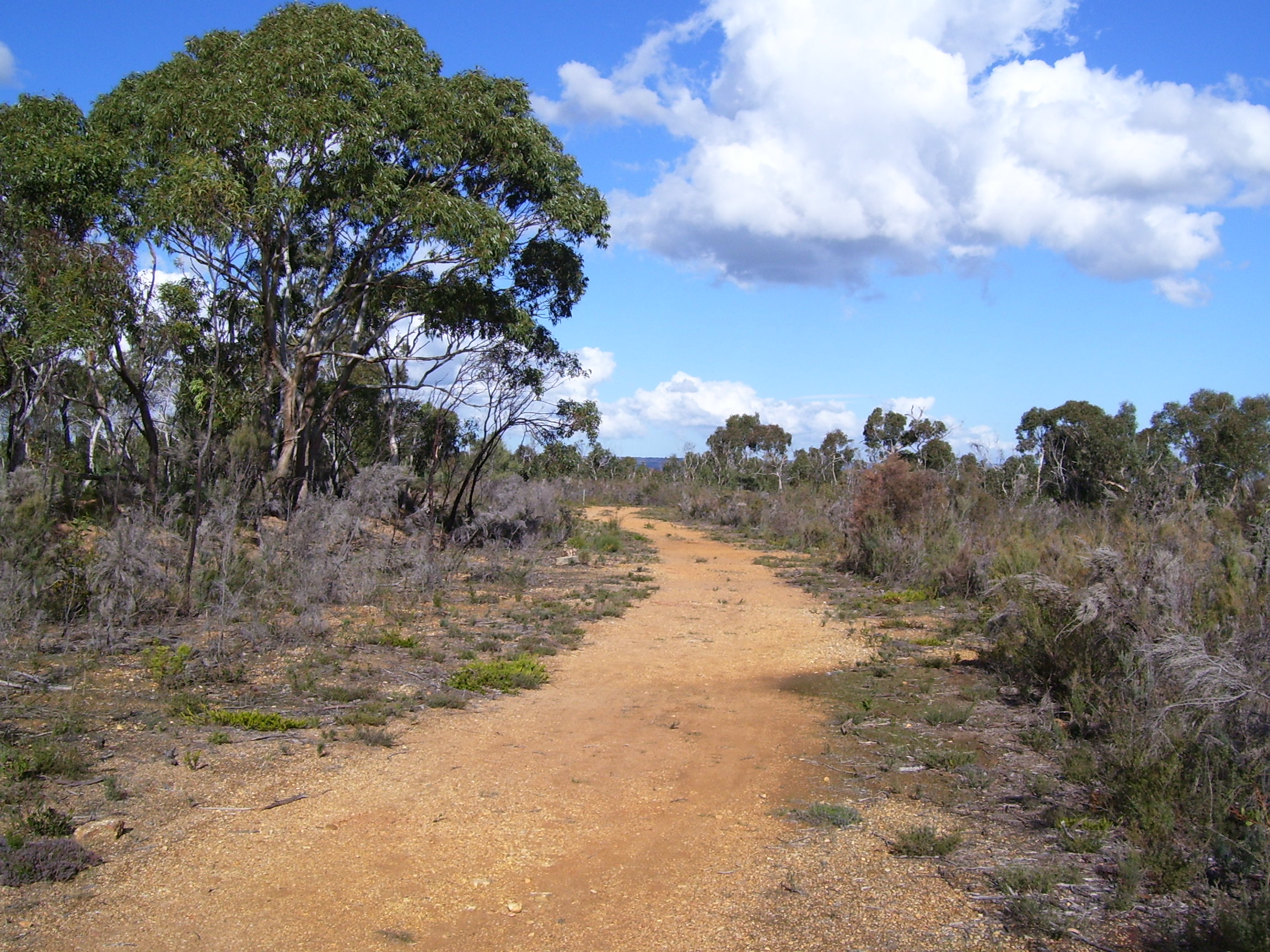 Onkaparinga National Park.